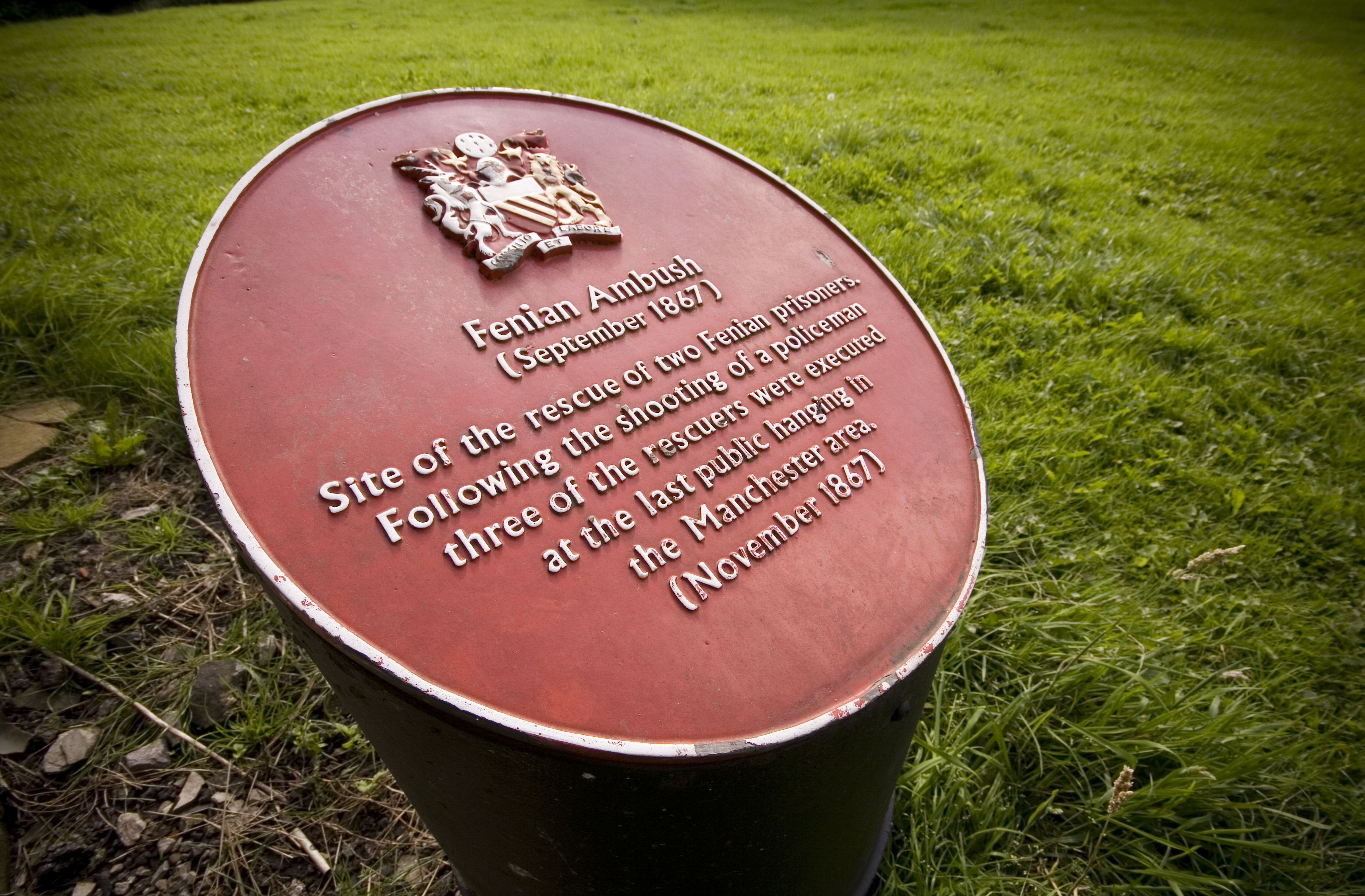 The red plaque denoting the location of the Fenian Ambush, on Hyde Road, to the east of Manchester City Centre.